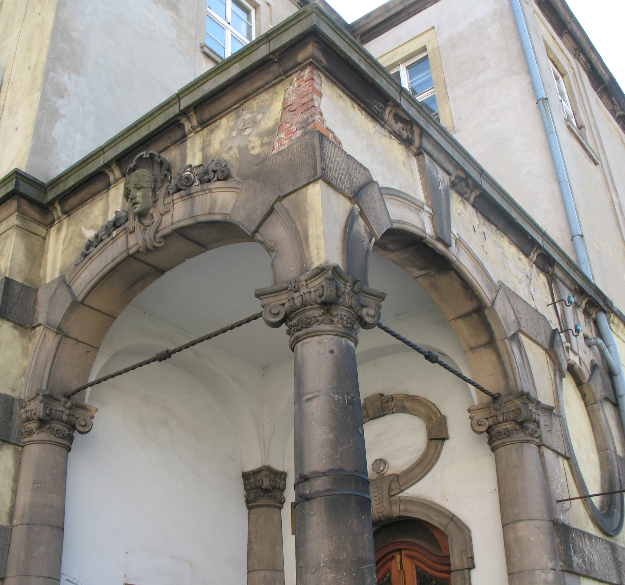 Semi-circular arches, ul. J. E. Purkyniego, Wrocław, Poland.